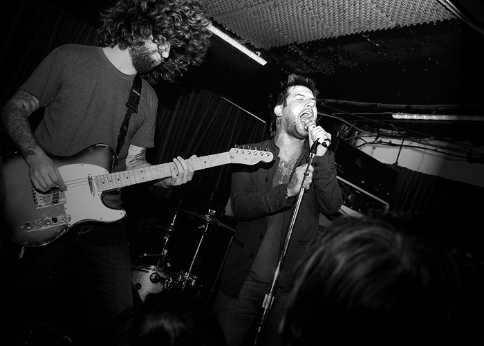 The Damned Things Live at the Borderline